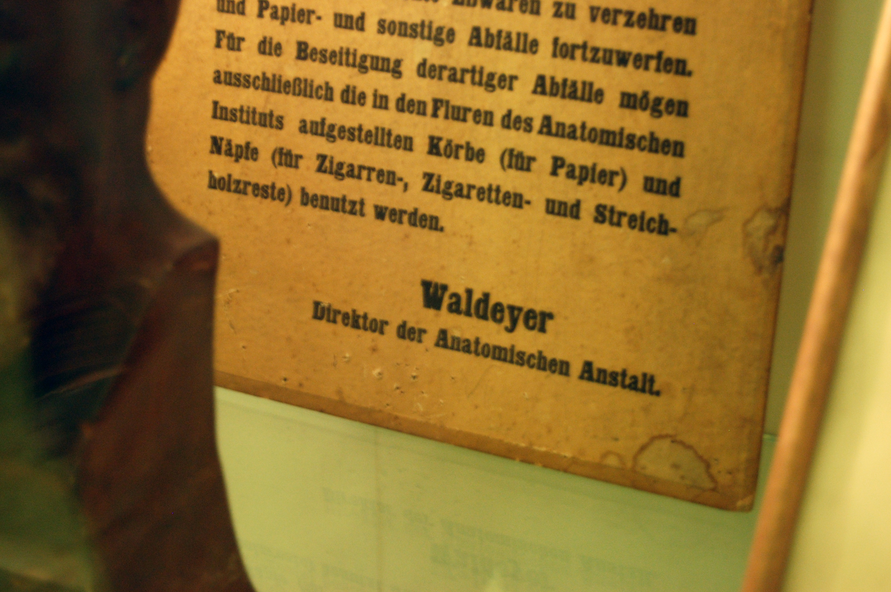 Old poster signed by Heinrich Wilhelm Waldeyer (director of University of Berlin Anathomy Institute)